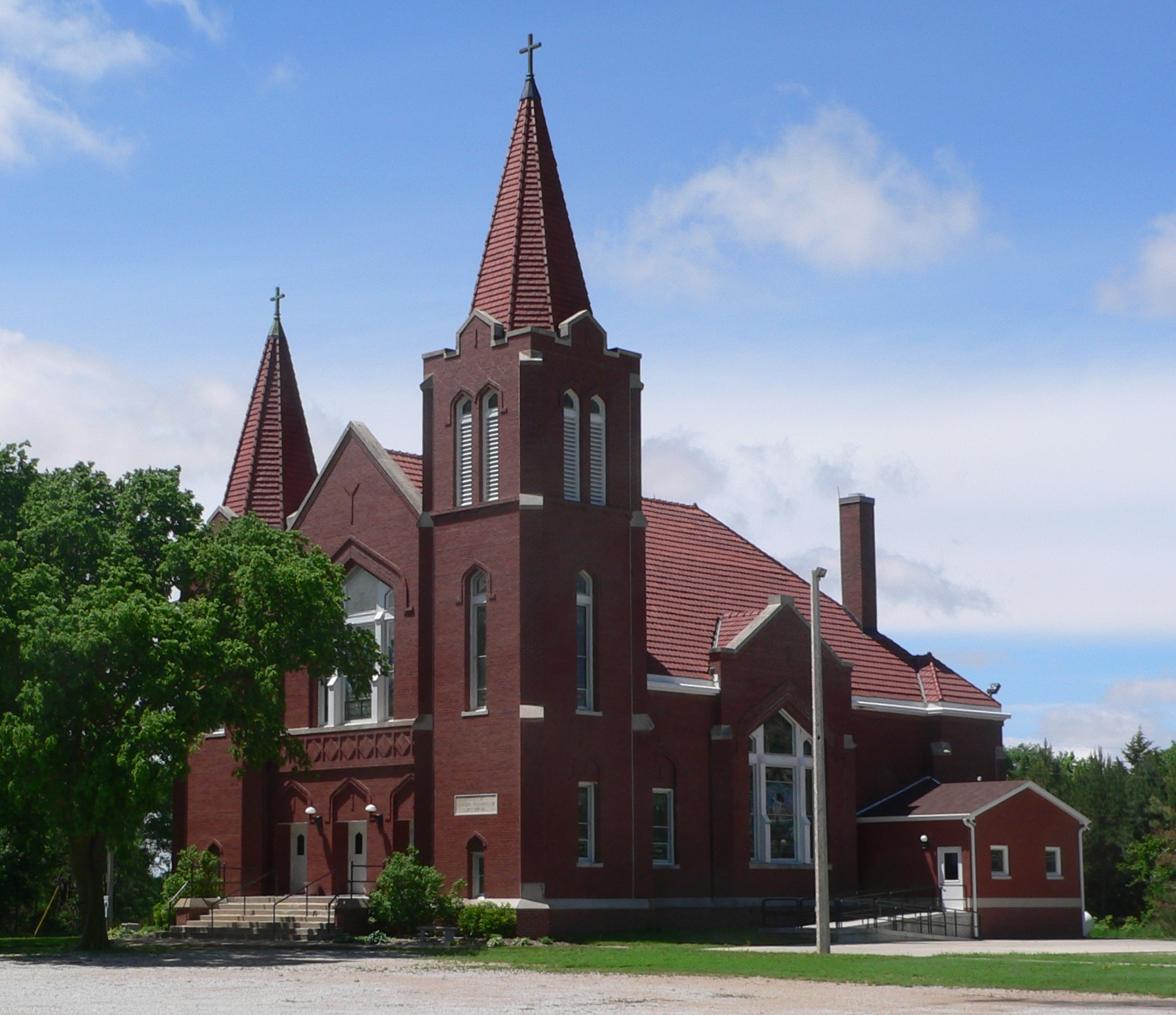 Our Redeemer Lutheran Church, located at 3743 Marysville Road near Staplehurst in rural Seward County, Nebraska; seen from the northeast.